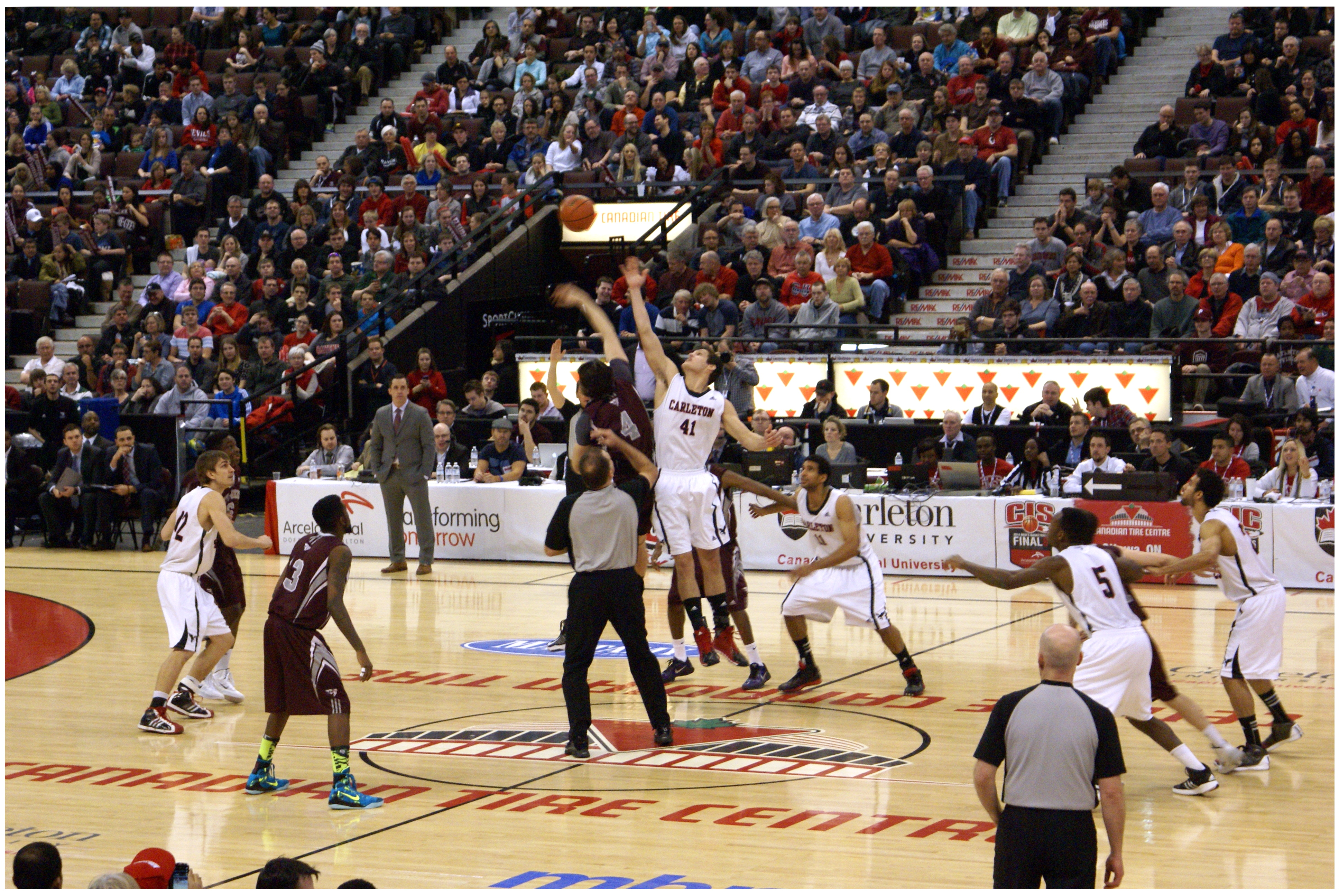 Opening tip of the CIS Basketball final 2014 between Ottawa Gee-Gees and Carleton Ravens